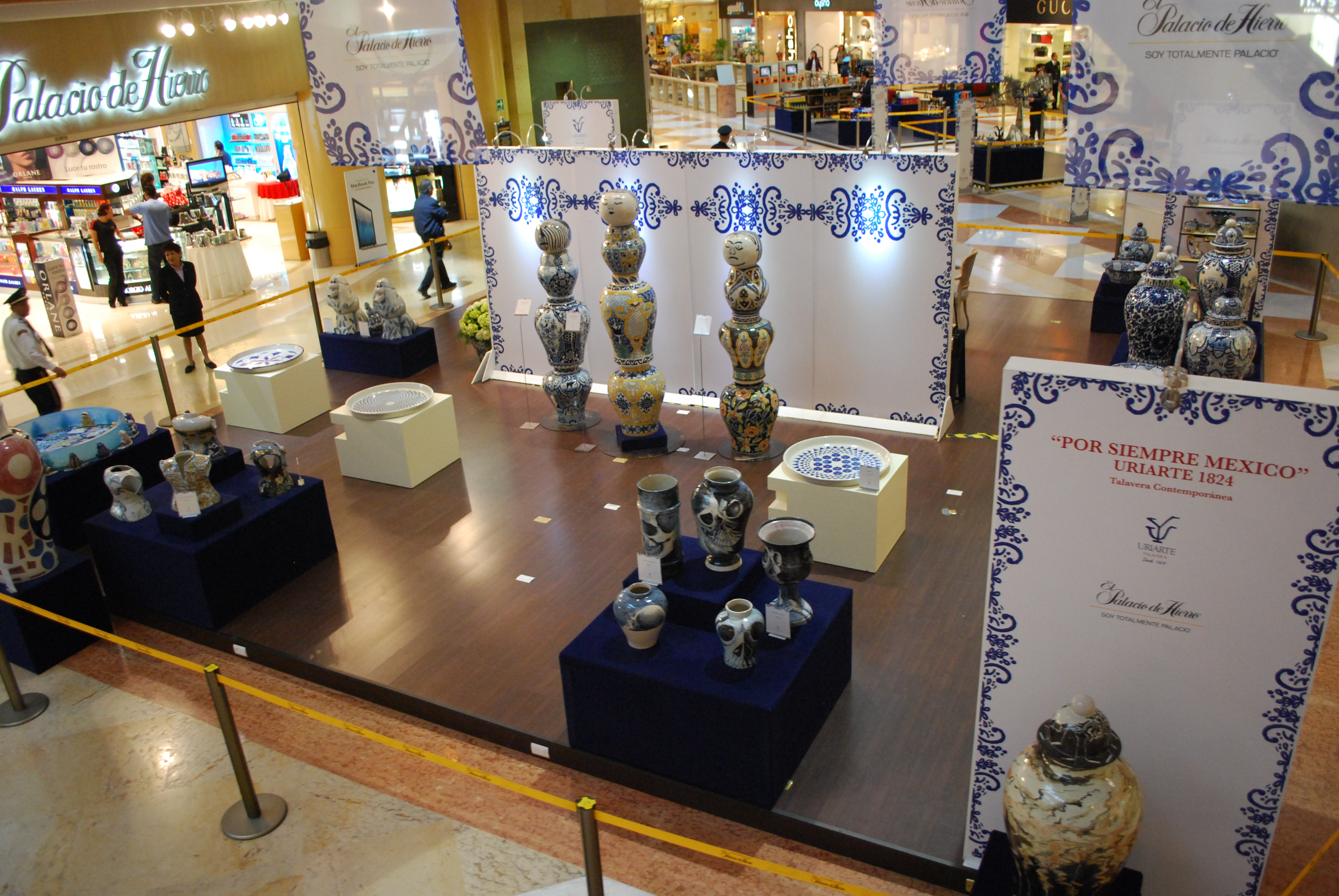 Display of Uriarte Talavera in the Palacio de Hierro in Polanco, Mexico City